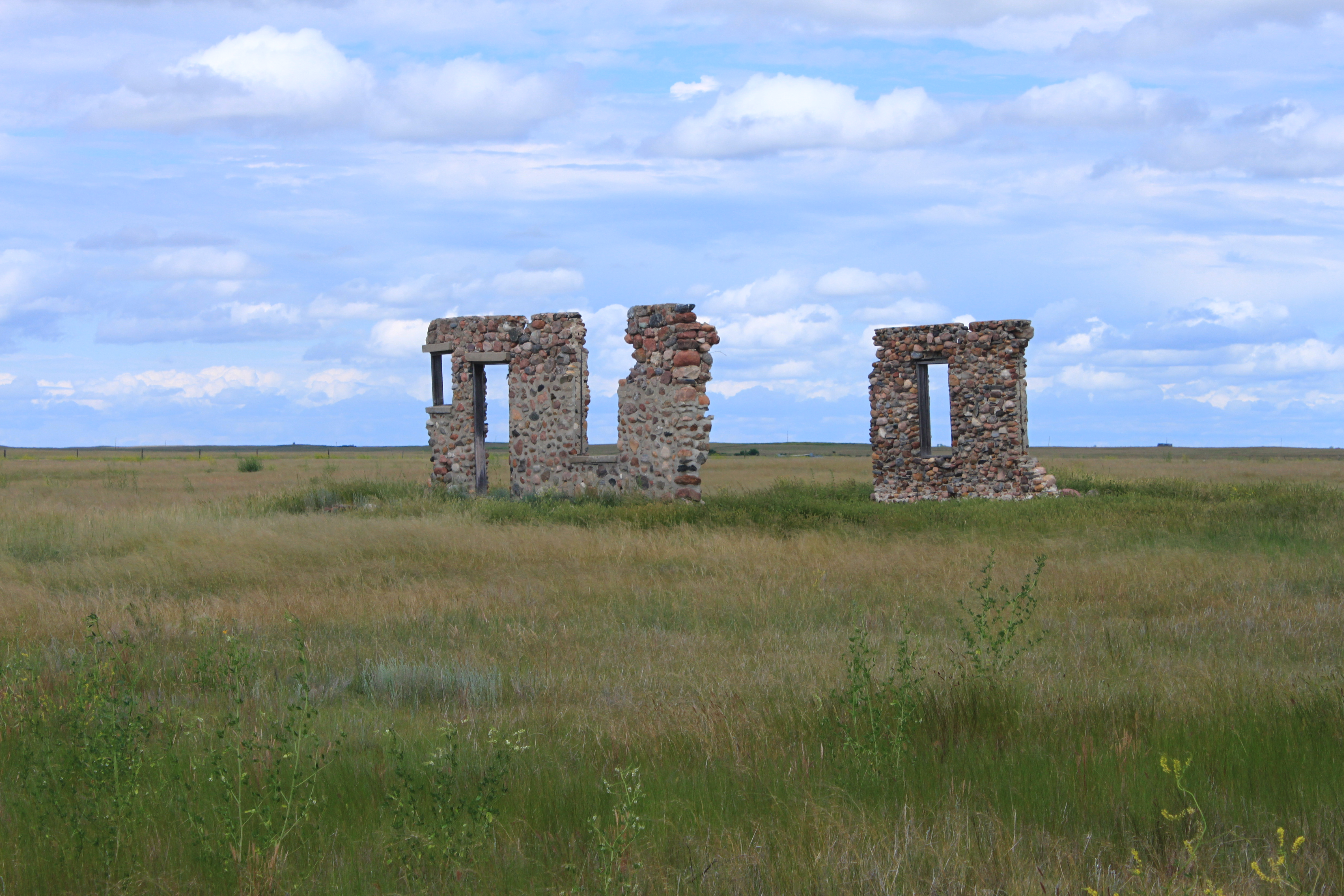 Remains of a pioneer home all that remains of the former community of Flowerdale, Alberta 5k south of Cessford.